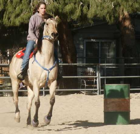 A Buttermilk Buckskin Horse. Photo by Ron Miller, Horse owned by Mary Miller